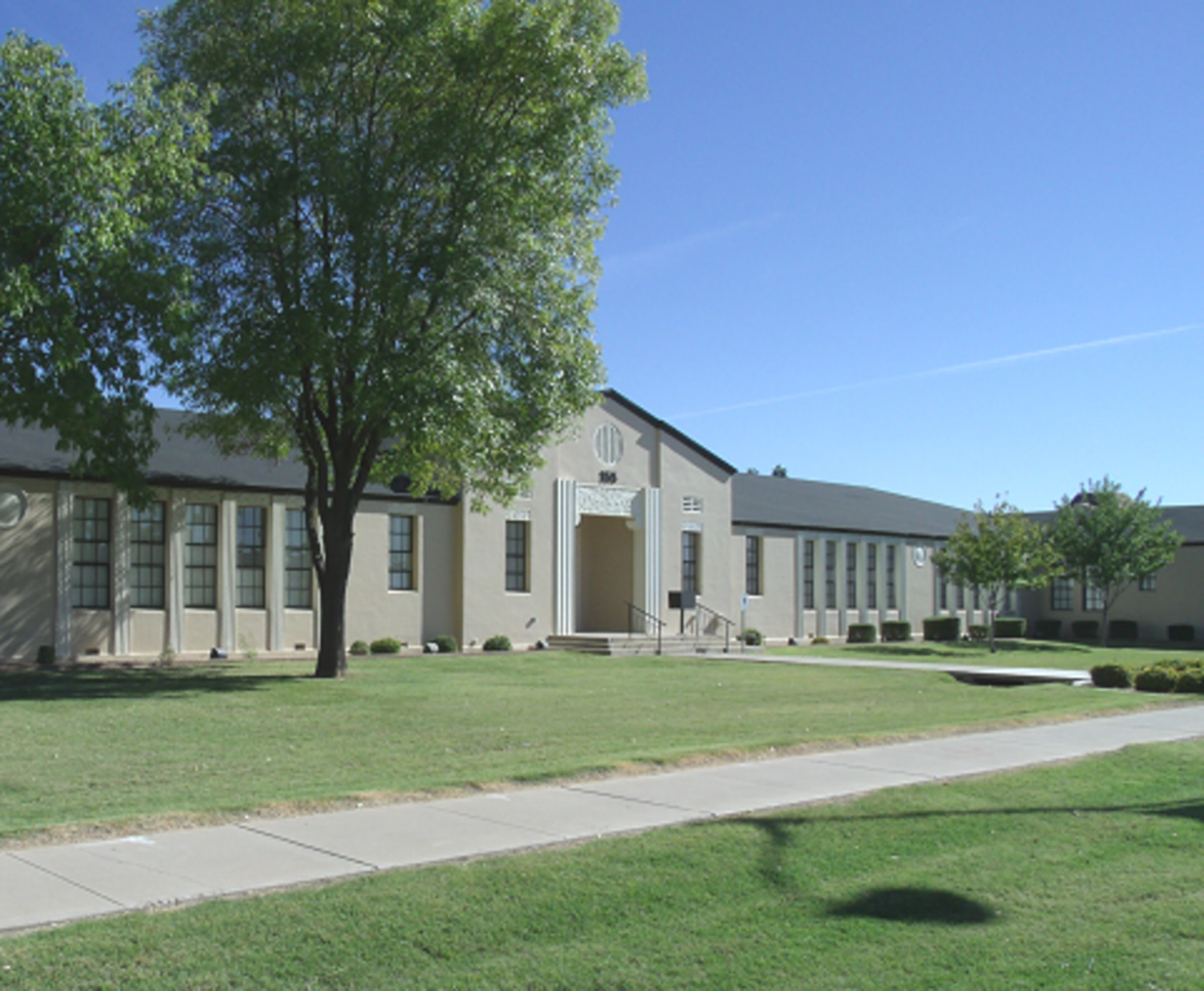 Irving School built in 1936. Listed in National Register of Historic Places in 2000 .